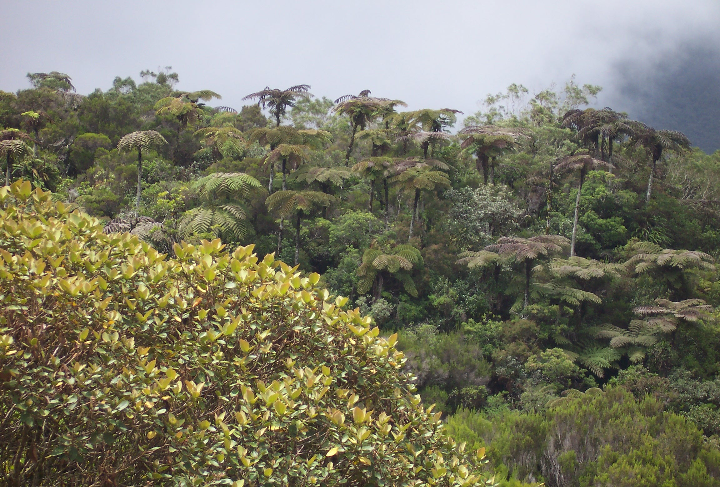 Forêt de Bébour (Réunion island): Typical natural standing with tree-like ferns. Photo : B.navez - 31 JAN 2006